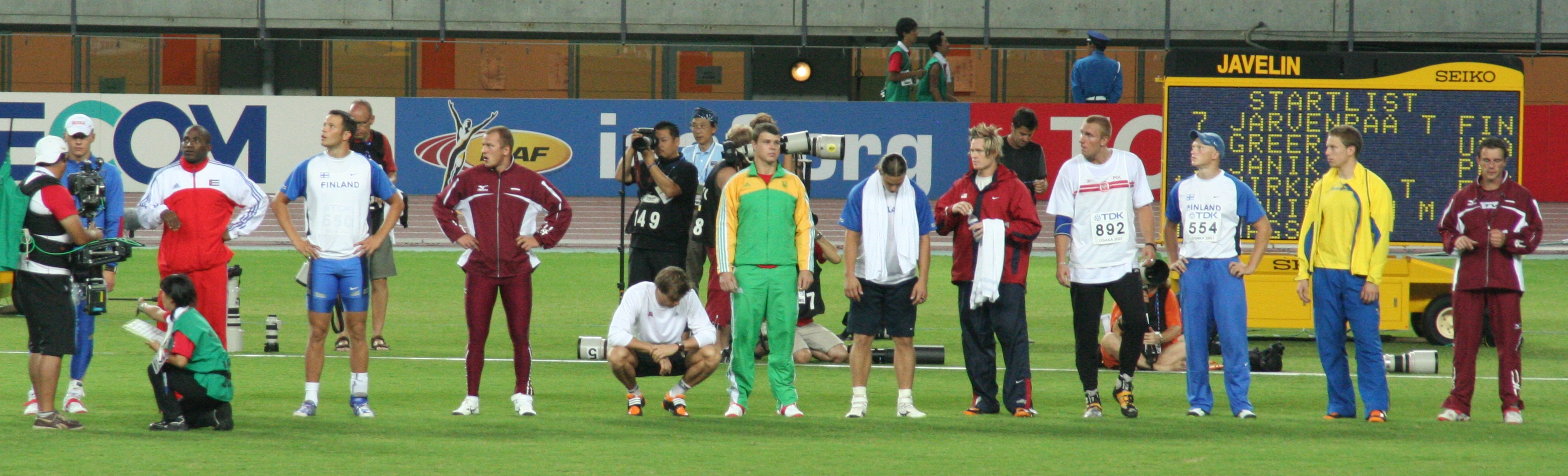 World Athletics Championships 2007 in Osaka - participants in the final of the men's Javelin competition: Aleksandr Ivanov, Guillermo Martínez, Tero Pitkämäki, Vadims Vasilevskis, Andreas Thorkildsen, John Robert Oosthuizen, Tero Järvenpää, Breaux Greer, Igor Janik, Teemu Wirkkala, Magnus Arvidsson, Eriks Rags